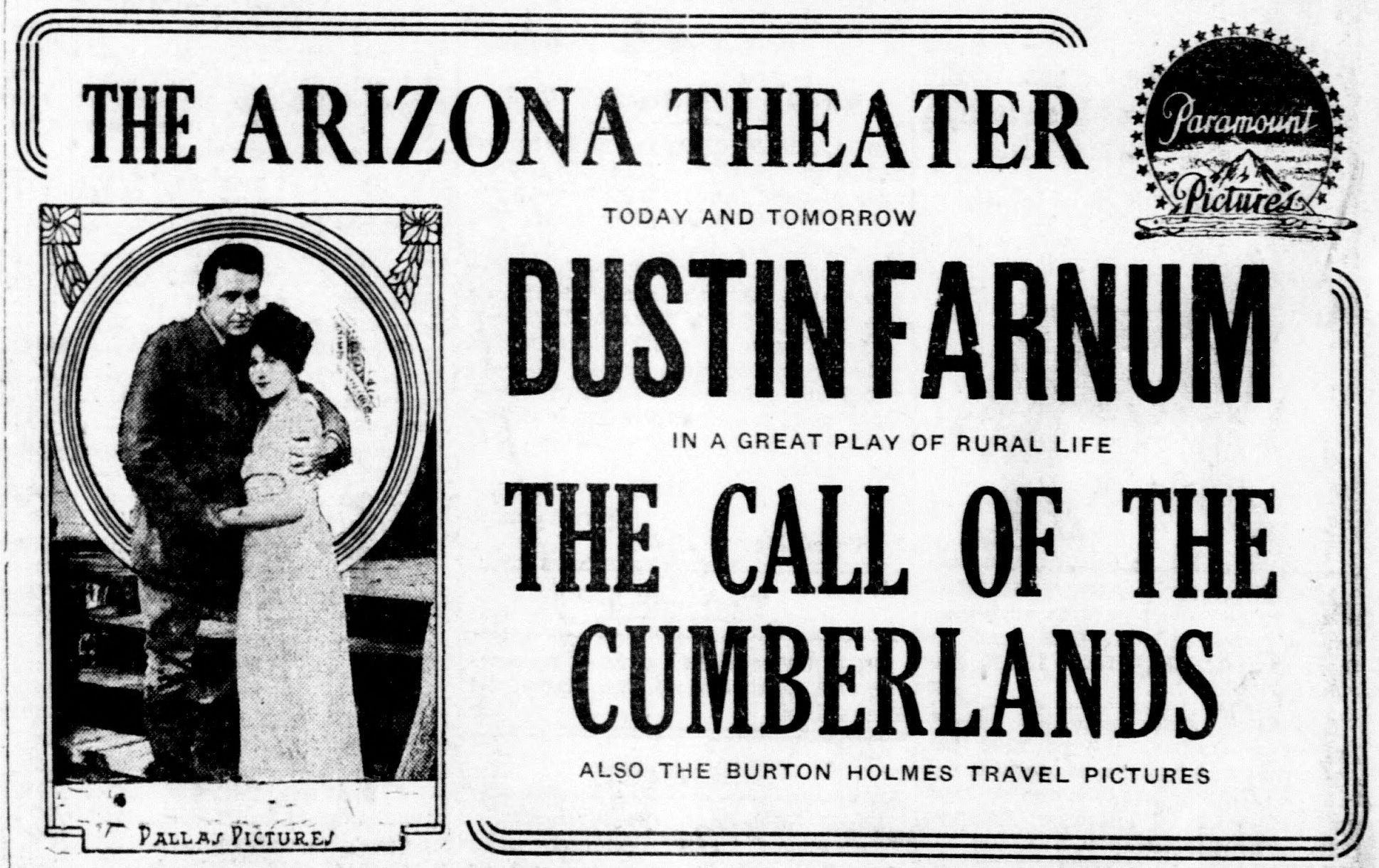 The Call of the Cumberlands is a 1916 American drama silent film directed by Frank Lloyd and written by Charles Neville Buck and Julia Crawford Ivers. This is a newspaper advertisement for the film.